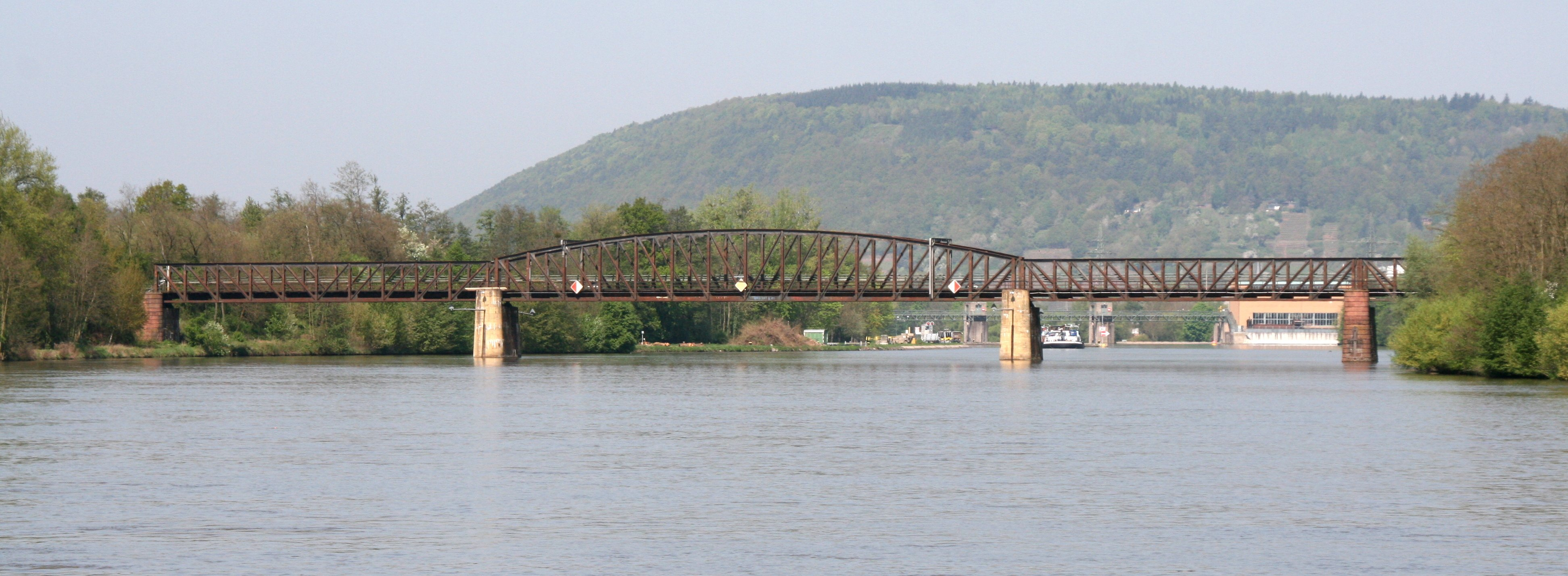 The railway bridge over the Main river in Miltenberg as seen from the Southeast